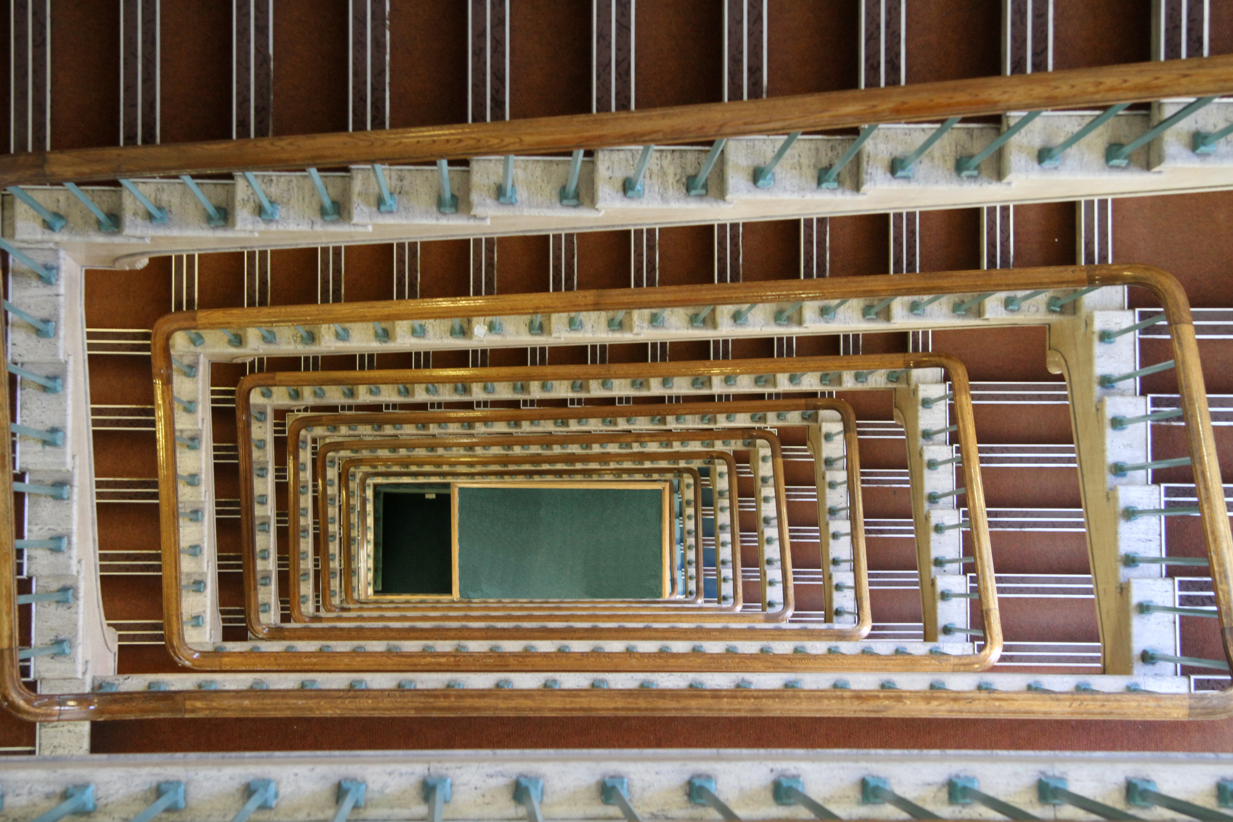 Staircase Bush House